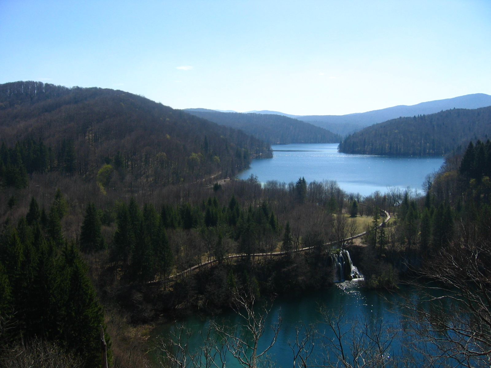 National Park Plitvice Lakes (Croatia), Prošćansko jezero.